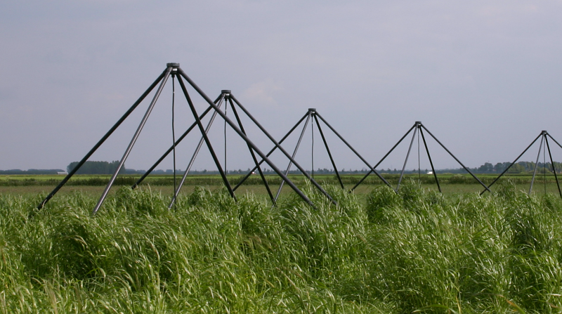 Radio antennas of the ITS (Initial Test Station) radio telescope in Exloo, Netherlands. ITS is a prototype station for the LOFAR (LOw Frequency ARray) radio telescope.